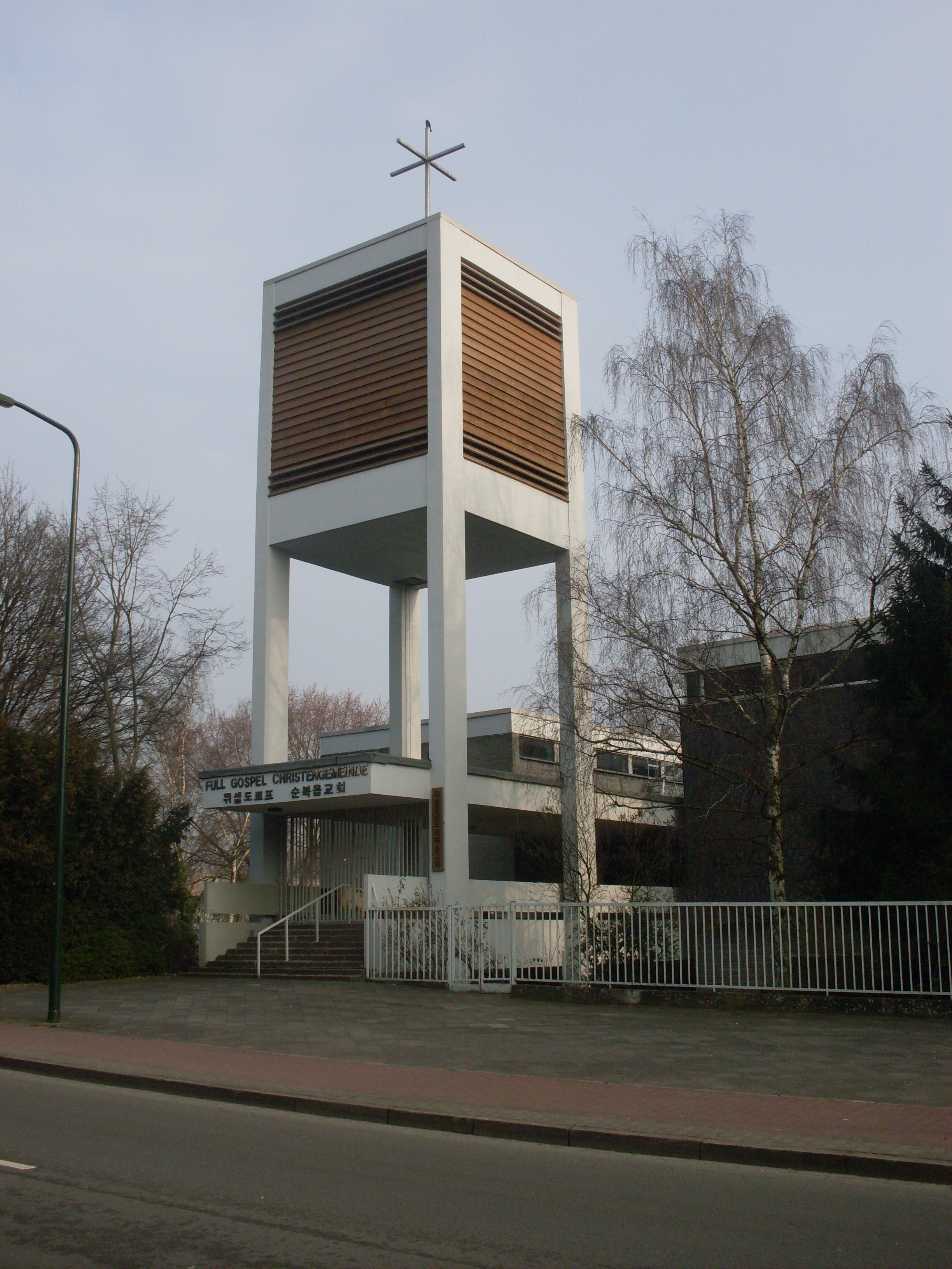 Korean Church in Düsseldorf